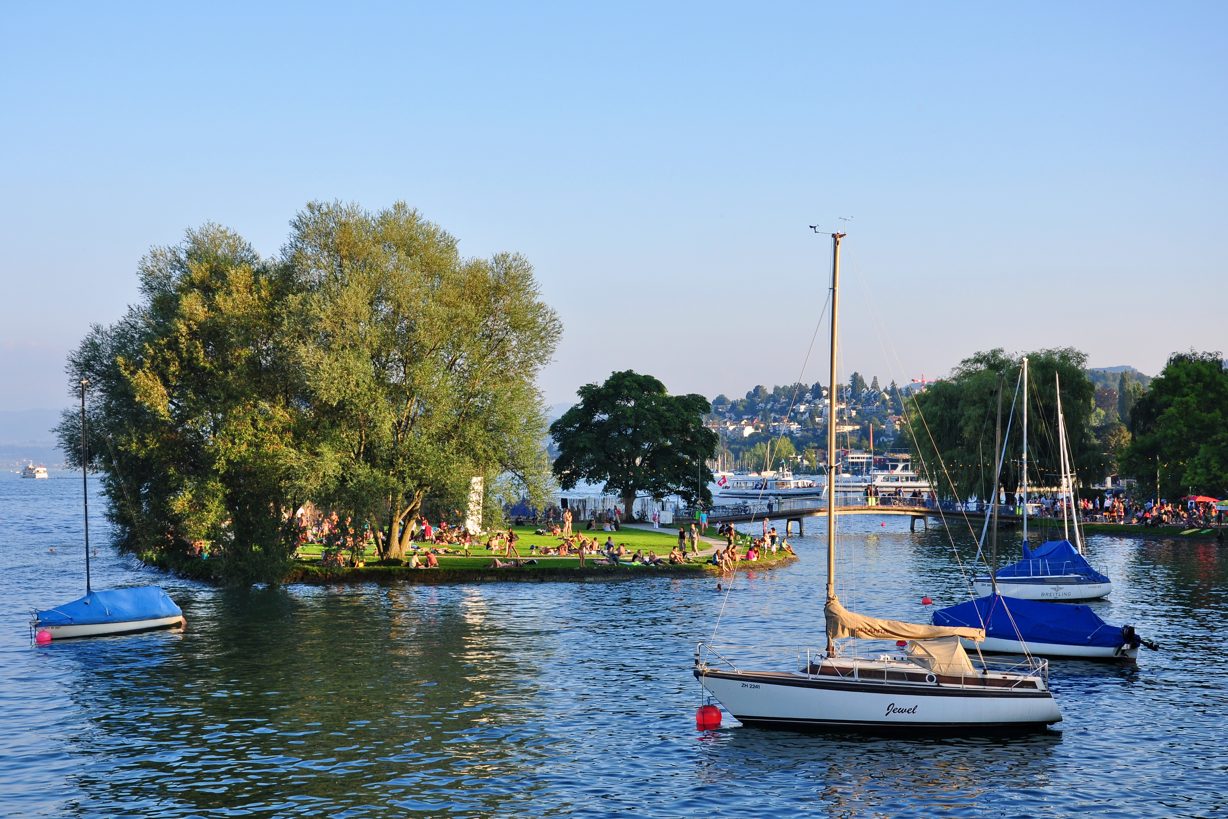 Saffa island on Zürichsee as seen from the Theaterspektakel 2010 in Zürich-Wollishofen, ZSG motorships in the background.